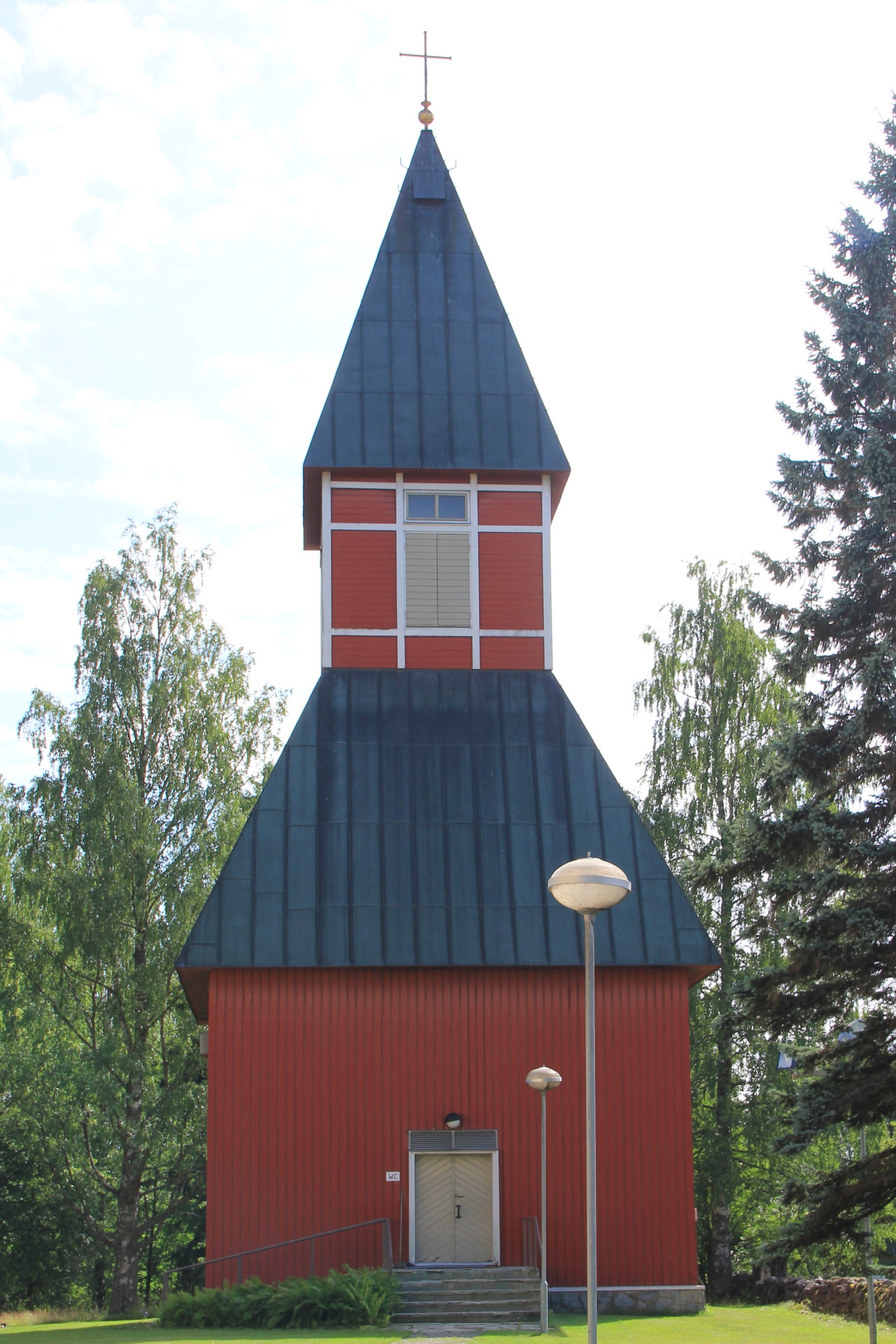 Eno bell tower, Joensuu, Finland. - Bell tower was designed by architect Kauno Kallio and it was completed in 1957.